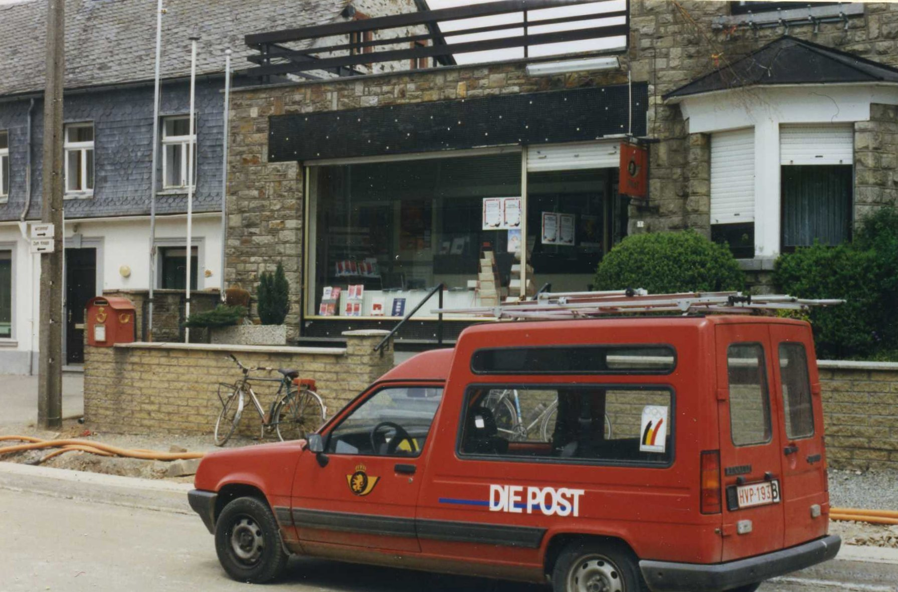 St Vith Post Office - Die Post van May 1995